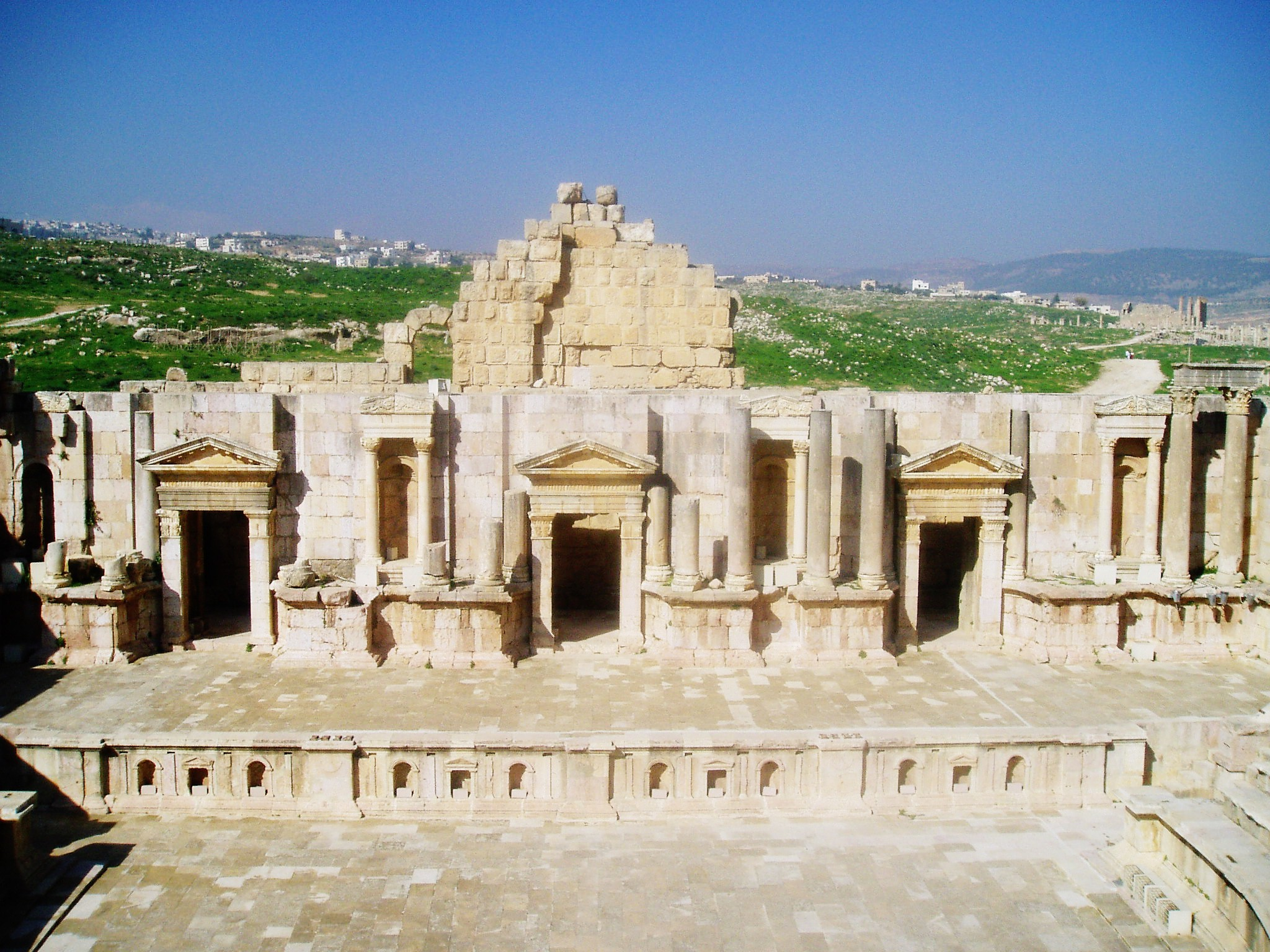 The stage of the South Theater in Jerash Jordan, with the Skene in the background.